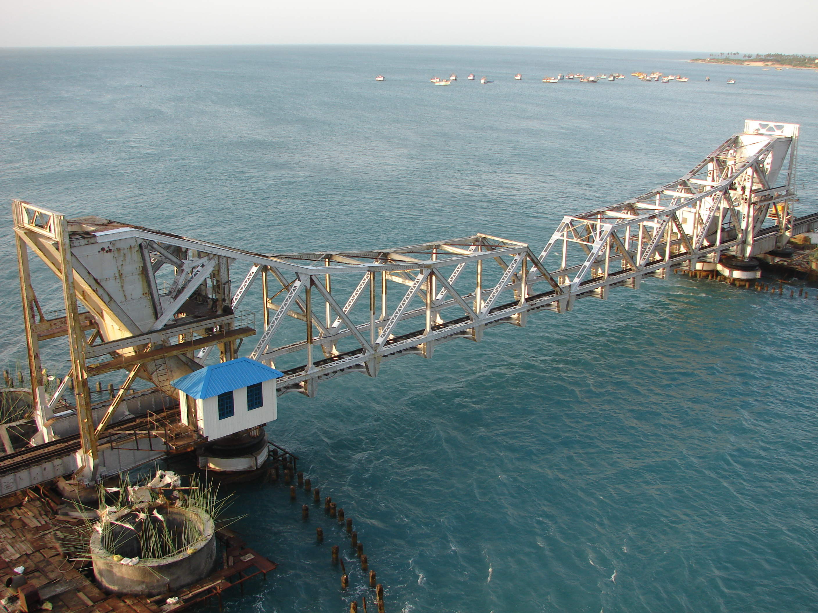 Rameshwaram bridge = Pamban bridge